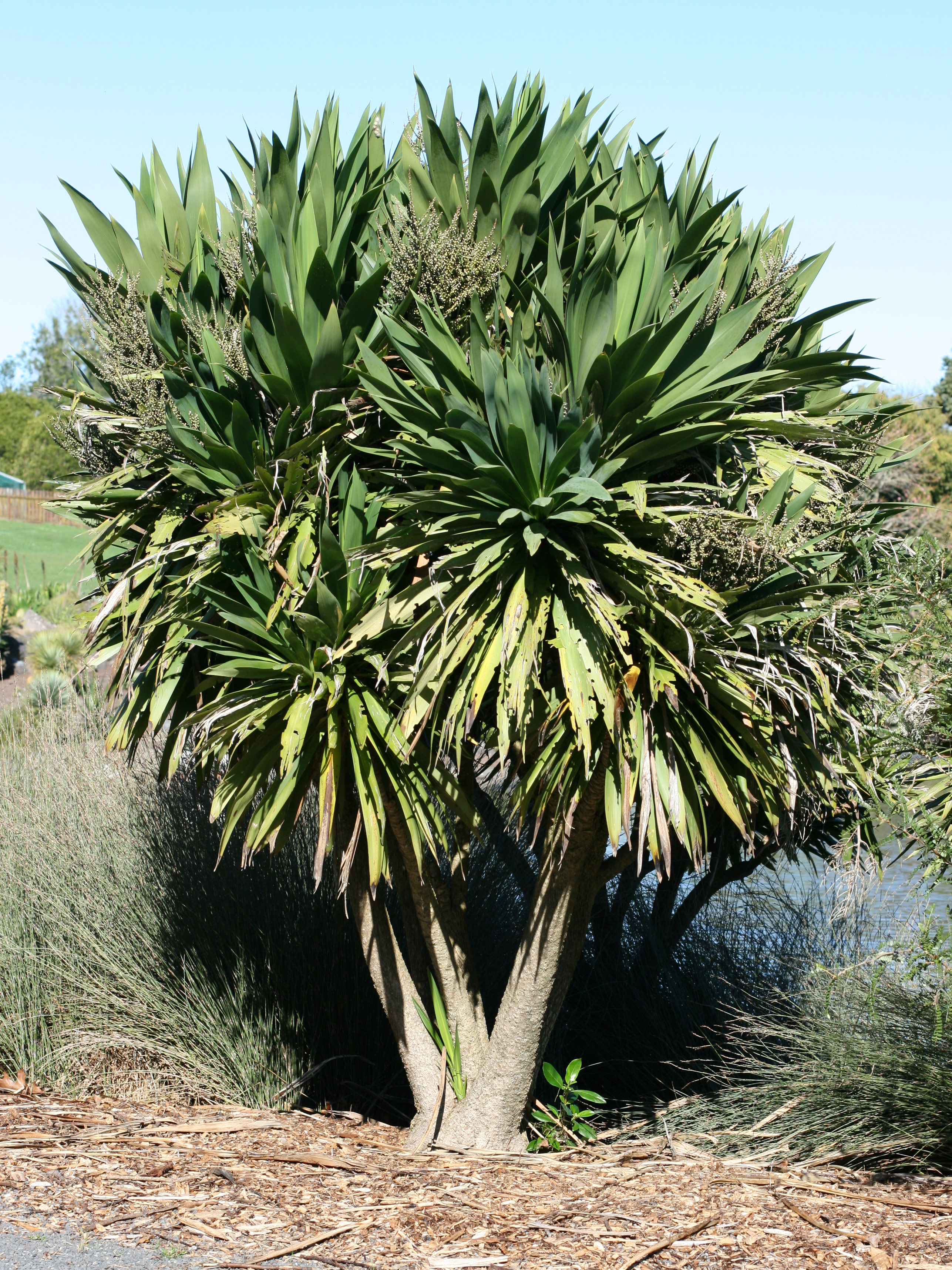 Cordyline obtecta, Auckland, New Zealand. This tree has panicles with fruit.